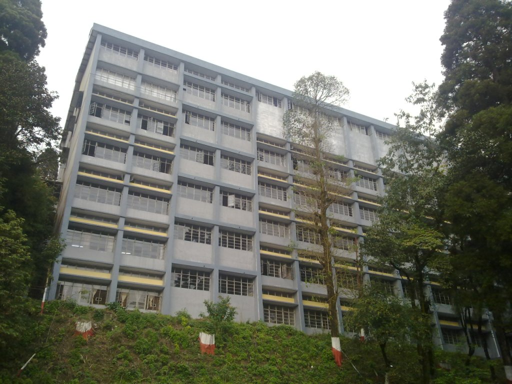 St. Robert's School opened in February 1934 in Halcyon House, Darjeeling. It was successor to St. Francis Xavier's Middle English, started by Rev. Fr. Charles Grant in 1914, on the grounds of Archbishop's House. On July 17th 1934, St. Robert's was transferred to the Park Hotel. It was recognized as a High School in 1935 by Calcutta University. The School was upgraded to Higher Secondary status with effect from 1.1.63 and phasing out the primary section began to allow from increased enrolment. The Programme was completed in 1965. From 1.1.74 St. Roberts's began preparing its class nine students from the Madhyamik Praksha of 1976. It was again upgraded to Higher Secondary status in 1993. The patron of the school is St. Robert Bellarmine, the famous sixteenth century saint and scholar. The motto of school is St. Robert gave to his most famous spiritual son, St. Aloysius Gongaza, a patron saint of youth -"Ad Maiora Natus Sum" - 'I was born for higher things'.